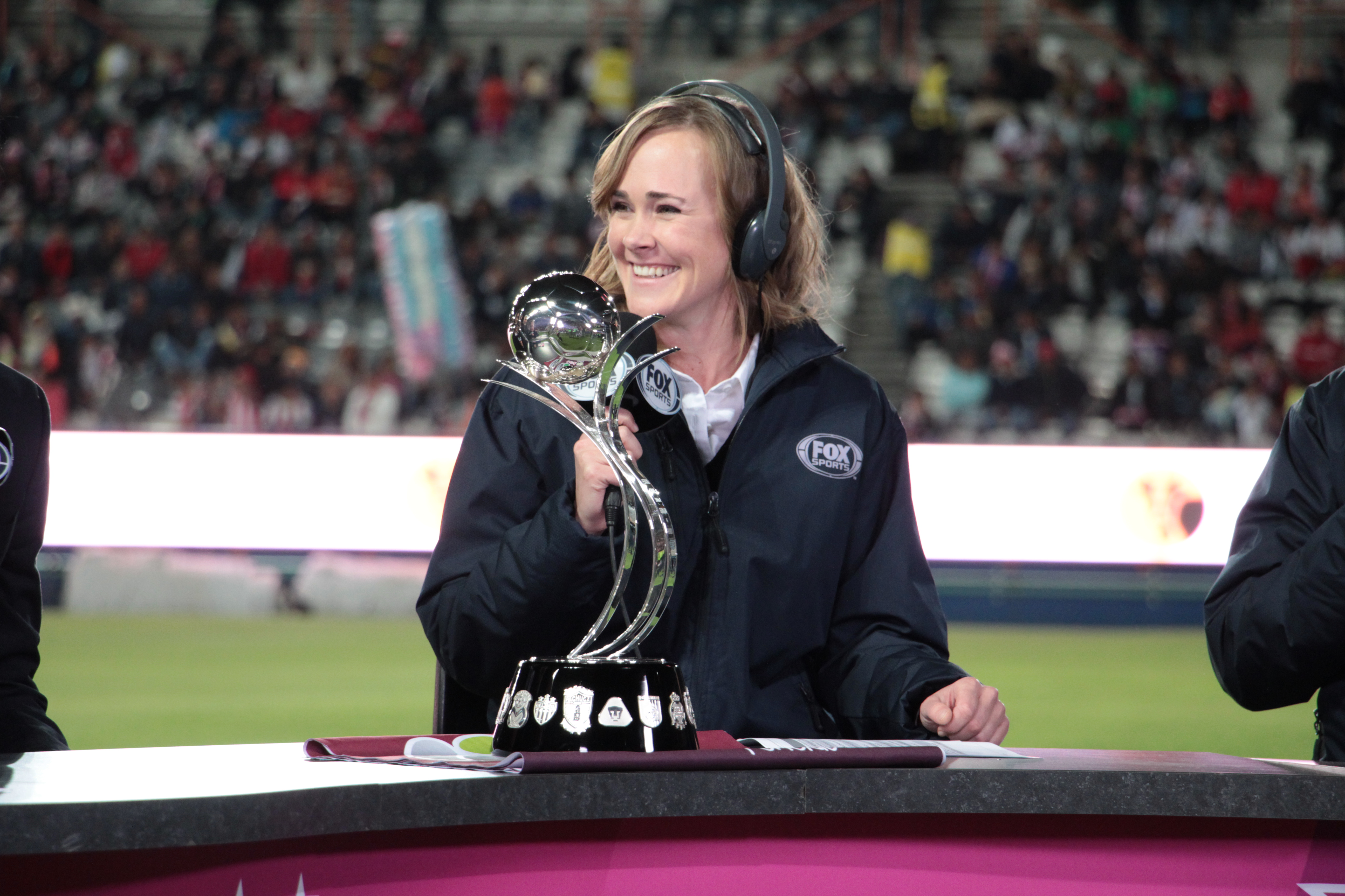 Marion Reimers, mexican journalist, sports commentator and television presenter.